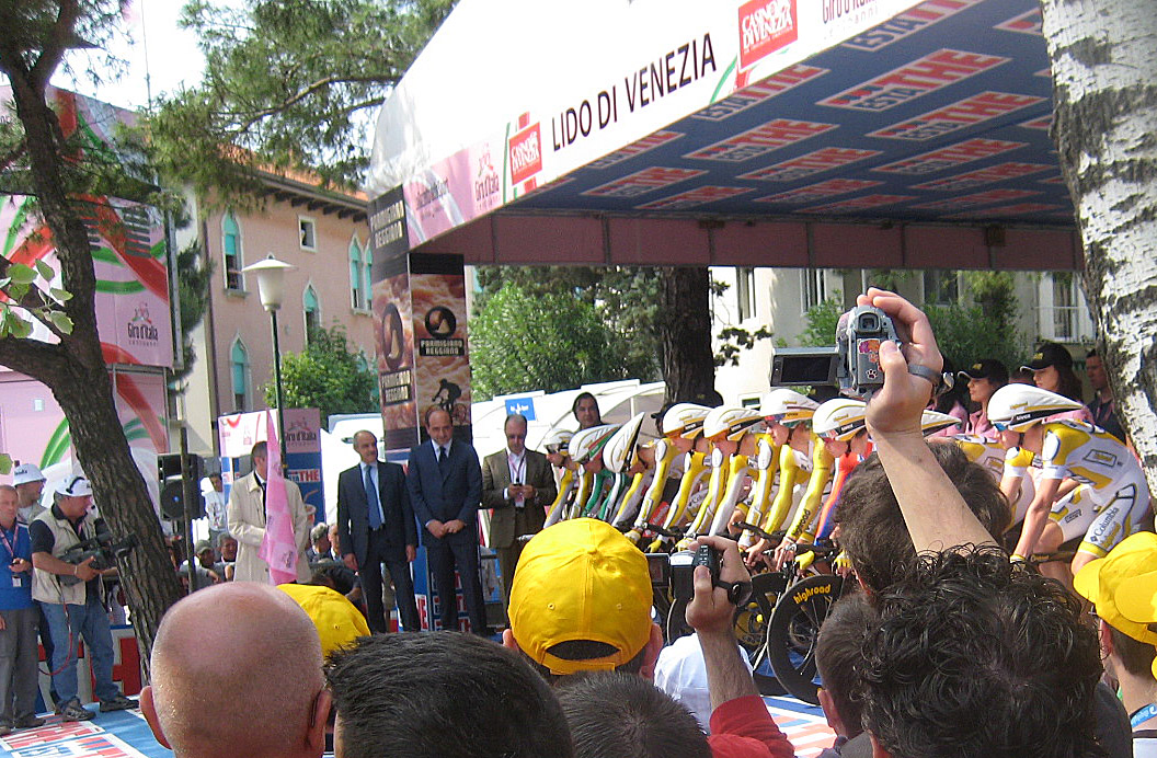 Team Columbia-High Road at the starting of the Giro d'Italia first stage in Lido di Venezia